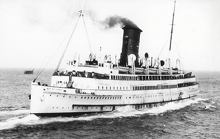 Ben-my-Chree in summer paint scheme.